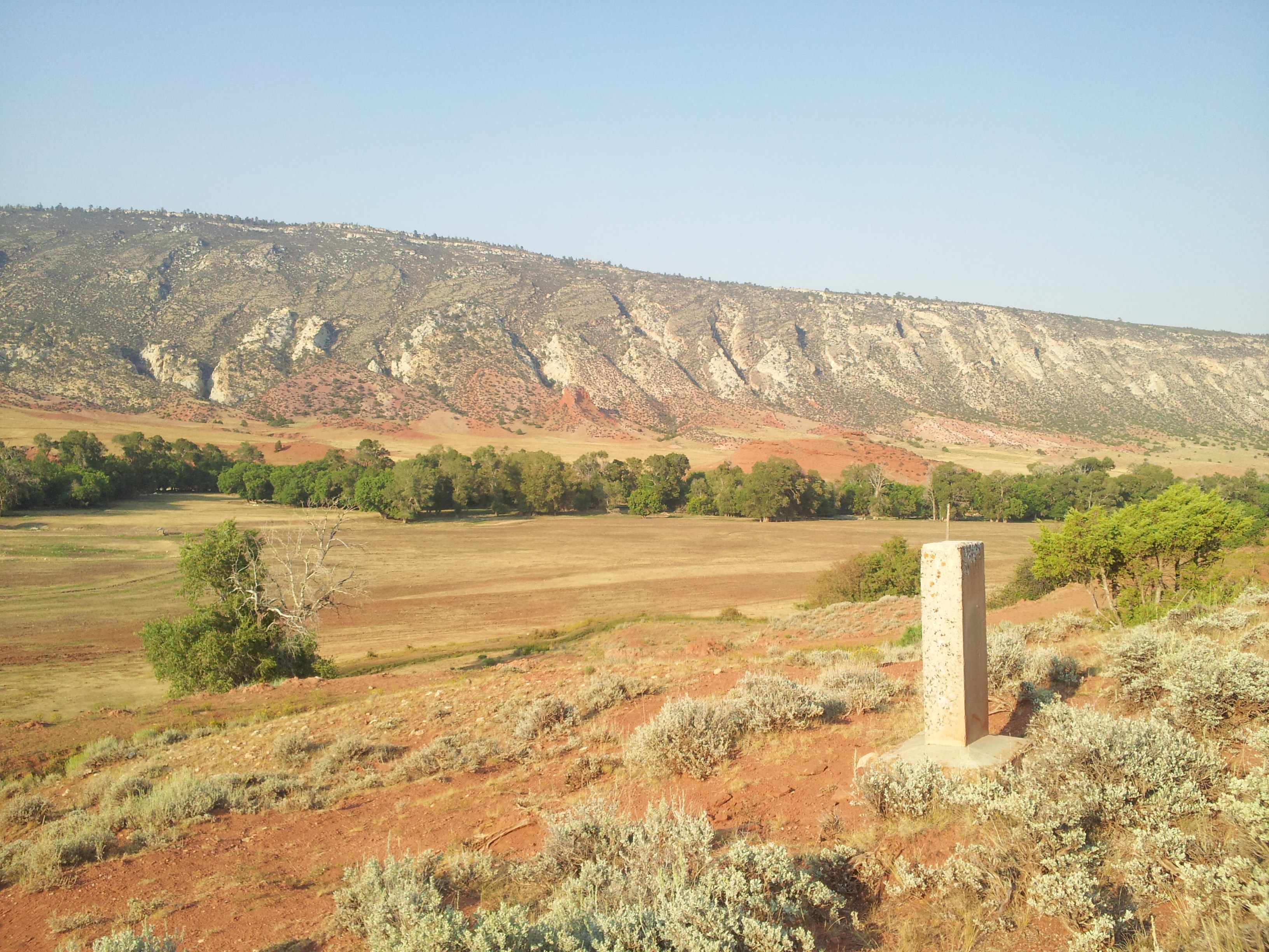 Looking north. The village site is in the foreground. The battlefield is across the creek beyond the cottonwood trees.